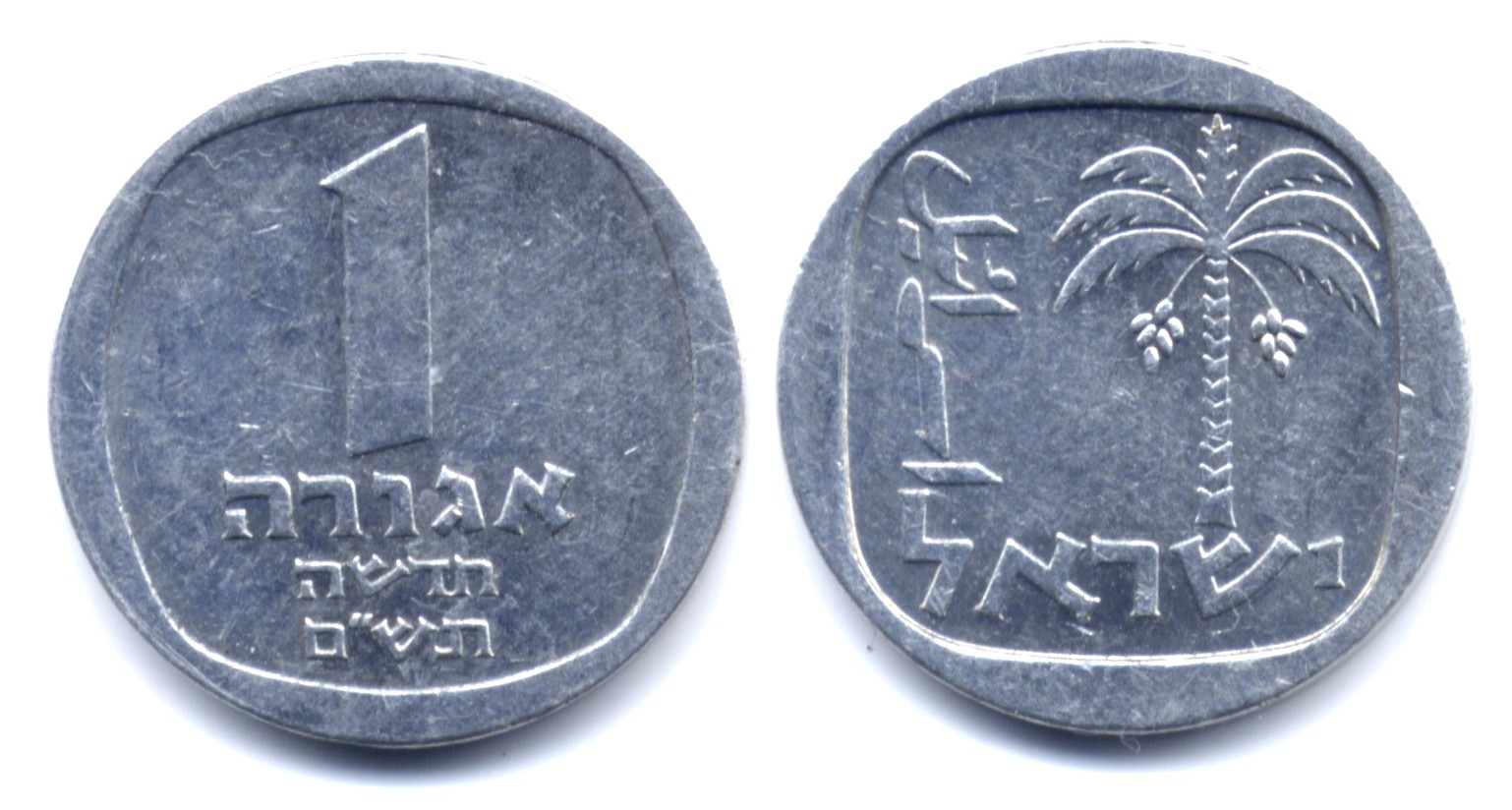 One Israeli Agora, from the Old Israeli Shekel series, year התש"ם.